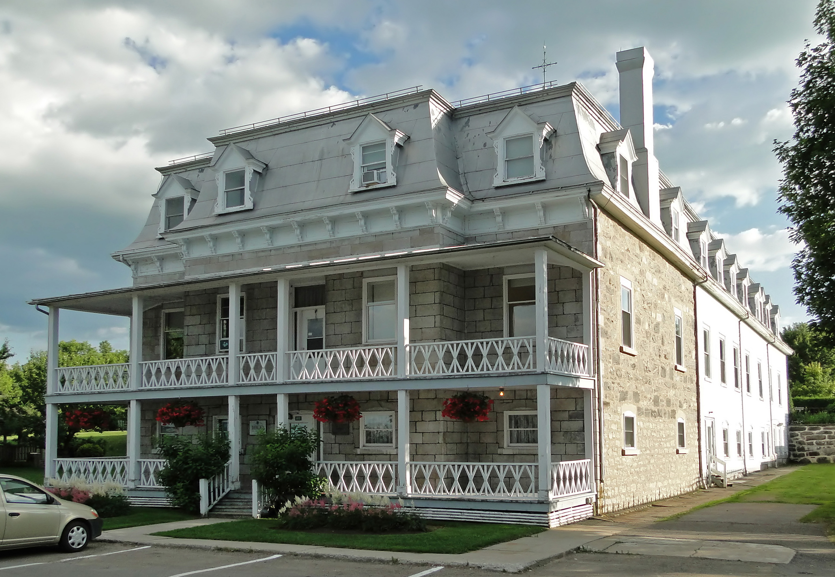 Convent of Deschambault, held by Sisters of Charity of Quebec between 1861 and 1994, Deschambault-Grondines, province of Quebec, Canada